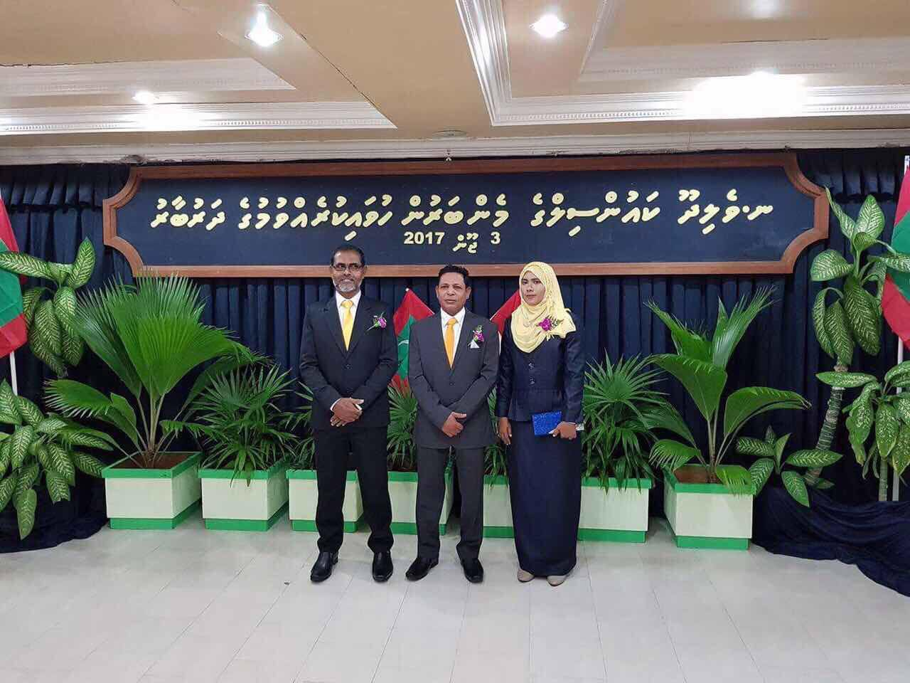 President: Asma , Vice President: Ahmed Jaufar , Councilor: Adam Ali